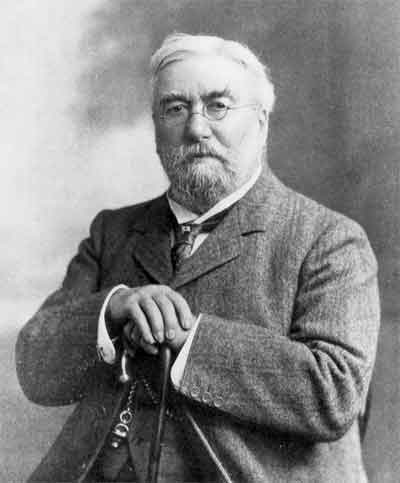 Norman Lockyer (1836-1920) - photo published in the US in 1909